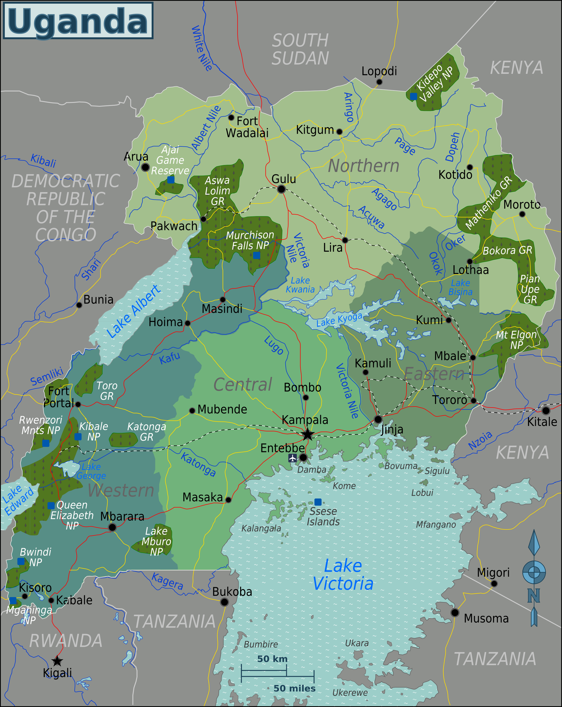 Map of Uganda. Map of Uganda, Uganda Map of: Uganda¤.